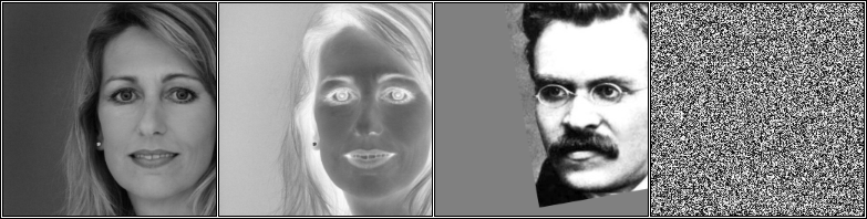 CDMA visualisation image:corr_inputrp.png: Input data, chirps. image:corr_outpurp.png: correlation with noisy chirp patterns image:corr_outpurandrp.png: Pseudorandom chirp. image:corr_multirp.png: mixed signal. Details see: cdma or contact benutzer:dantor Own work. Thanks to Scion for their great software.